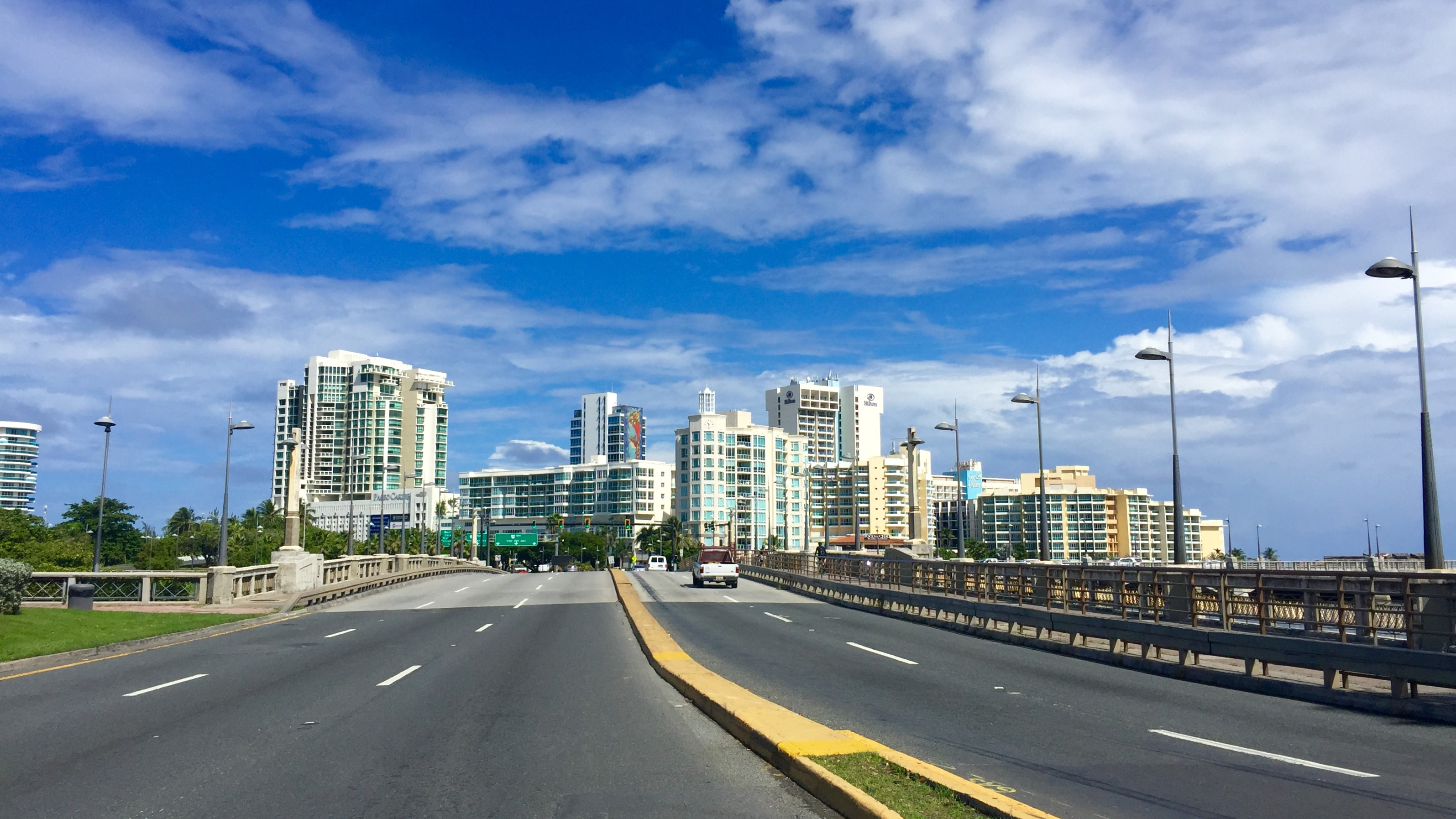 Bridge dividing Isleta de San Juan and Santurce